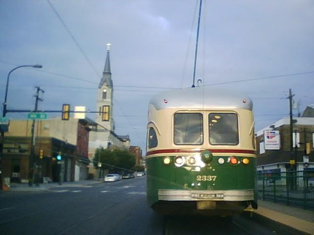 Route 15 Trolley Passes St. Peter's at 5th and Girard (Spire to the left of trolley).